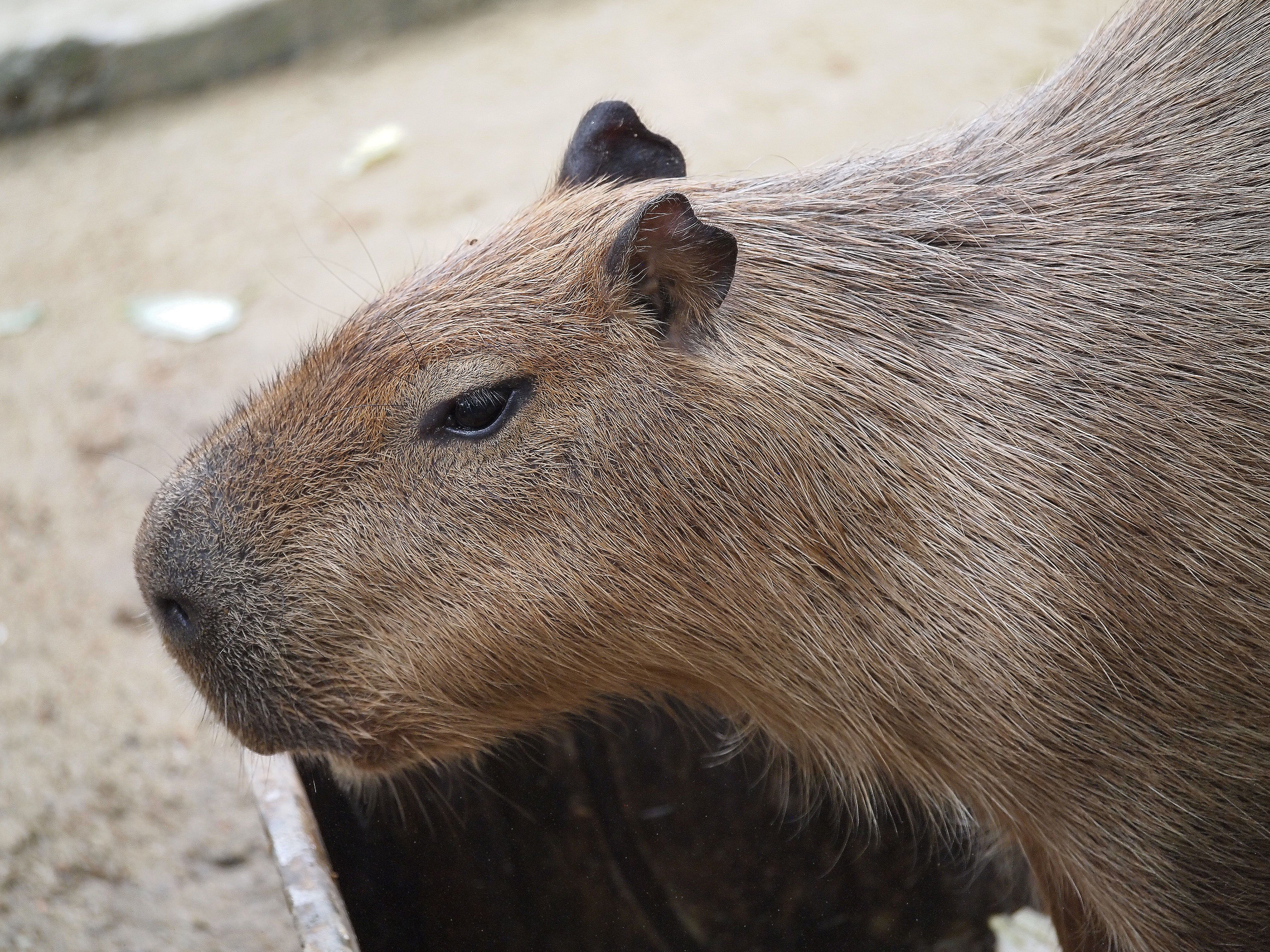 Capybara at National Zoo Malaysia